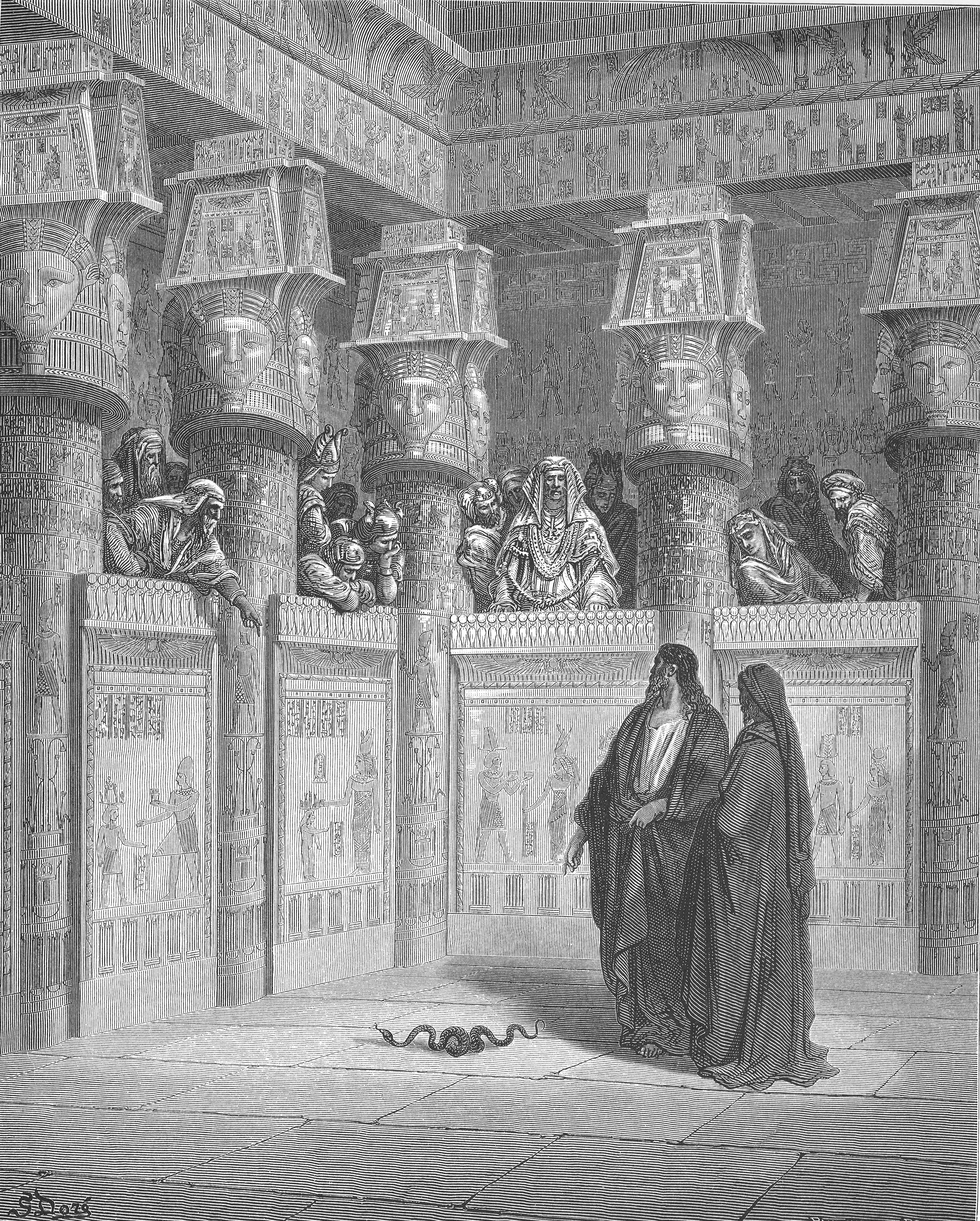 Moses and Aaron Appear before Pharaoh (Ex. 6:26-30, 7:1-10)